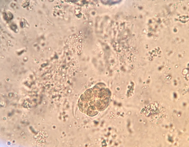 renale egg